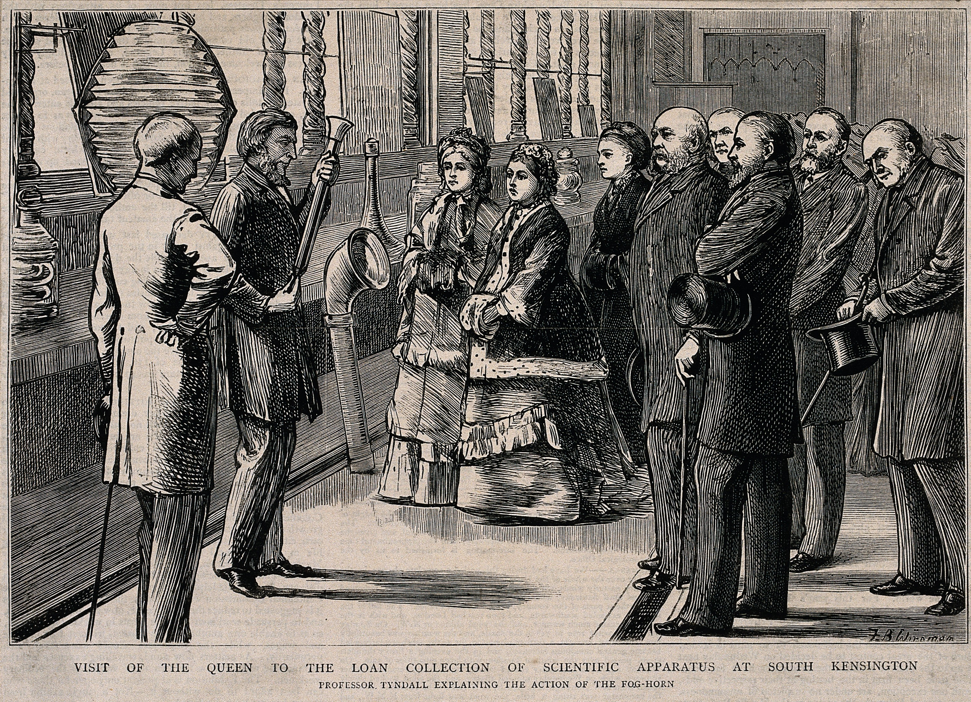 Professor Tyndall demonstrating a fog-horn to Queen Victoria and her entourage. Wood engraving by T. B. Wirgman, n.d. [c.1876]. Iconographic Collections Keywords: Victoria; Theodore Blake Wirgman; John Tyndall